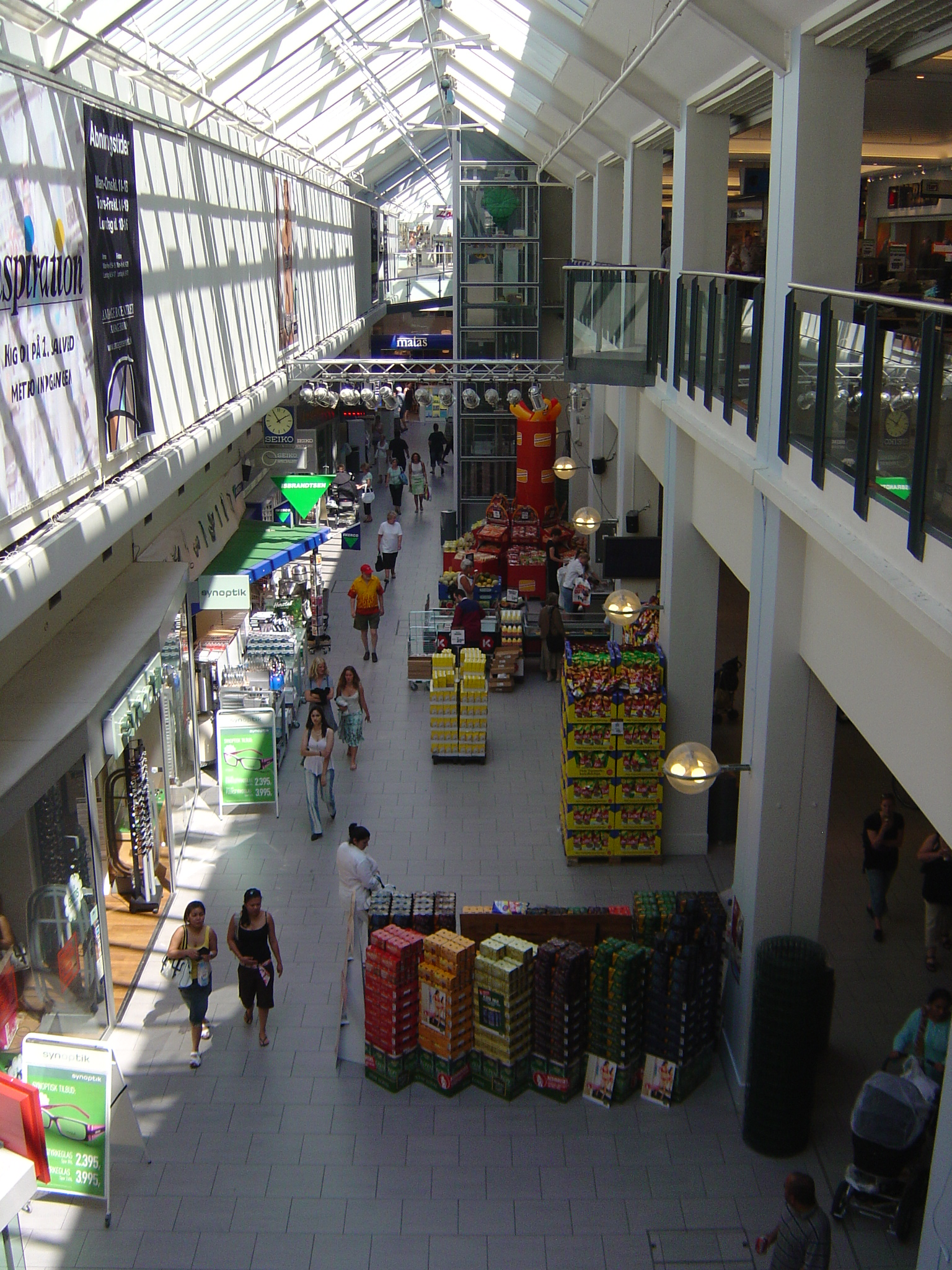 Amager Centret - Amagerbro, is a shopping center located in the north of Amager, Copenhagen. Shows the ground floor and first (US: second) floor.